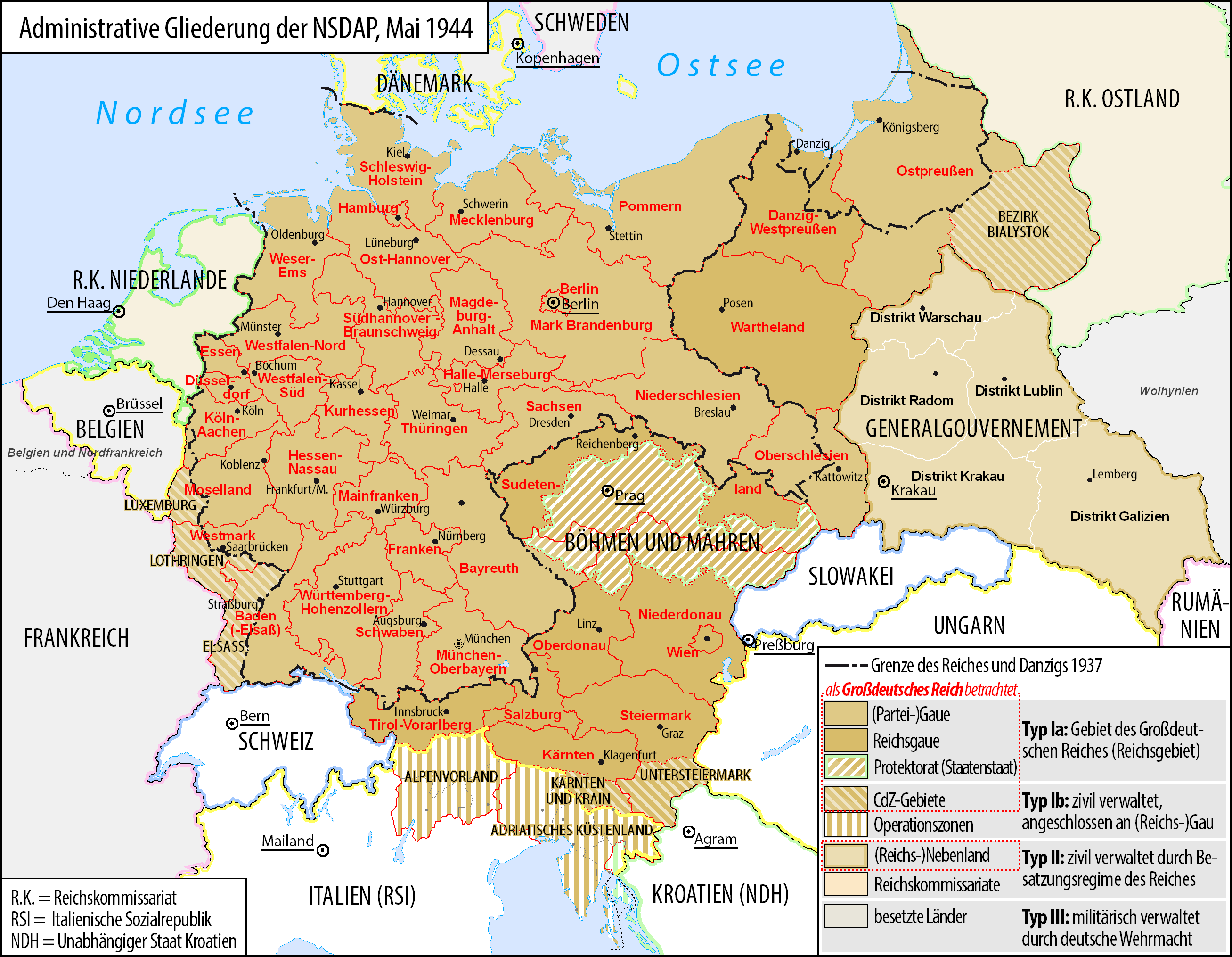 Map of the administrative division of the Greater German Reich ("Großdeutsches Reich"/"Großdeutschland"/"Greater German Empire"/"Greater Germany") by the NSDAP 1944 (in German).